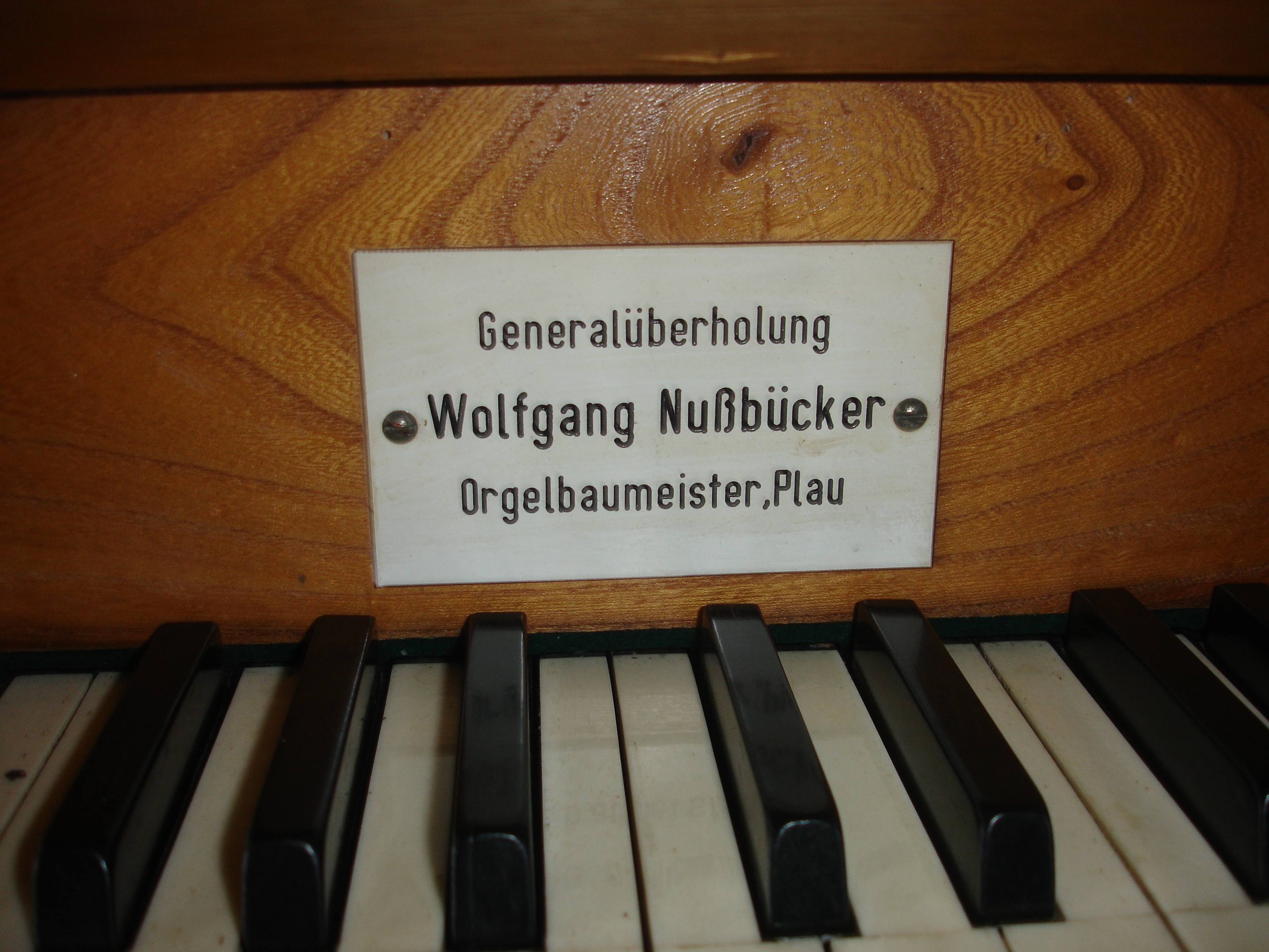 Church in Bössow, district Nordwestmecklenburg, Mecklenburg-Vorpommern, Germany